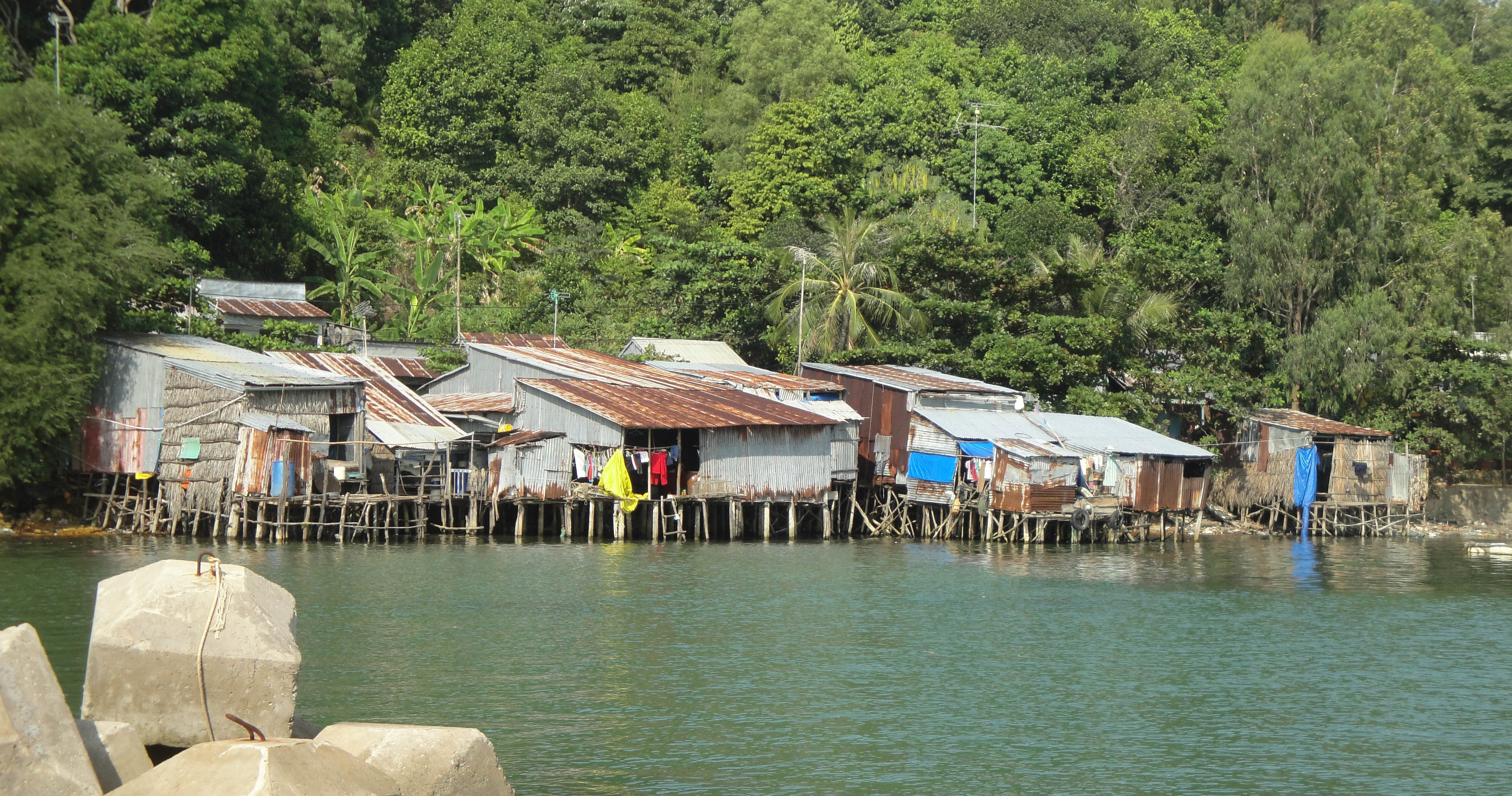 Shacks on an island of Ha Tien Islands